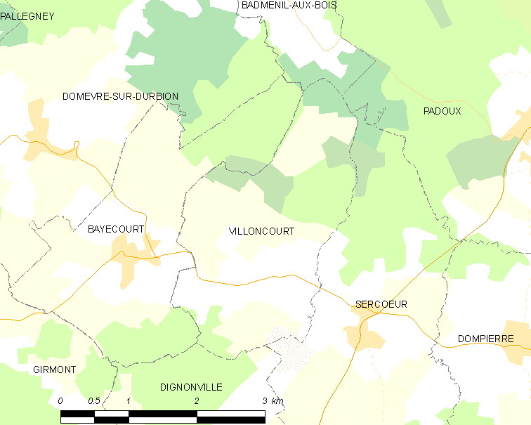 Map of French municipality Villoncourt